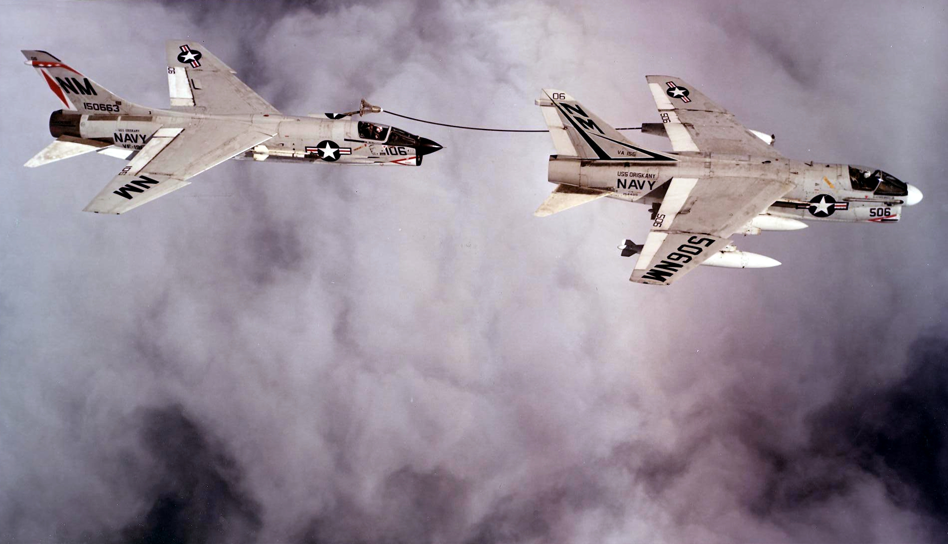 A U.S. Navy Grumman Ling Temco-Vought A-7B-3-CV Corsair II (BuNo 154489) from attack squadron VA-155 Silver Foxes refuels a Vought F-8J Crusader (BuNo 150663) from fighter squadron VF-191 Satan's Kittens over Vietnam. Both squadrons were assigned to Attack Carrier Air Wing 19 (CVW-19) aboard the aircraft carrier USS Oriskany (CVA-34) for a deployment to Vietnam from 5 June 1972 to 30 March 1973.